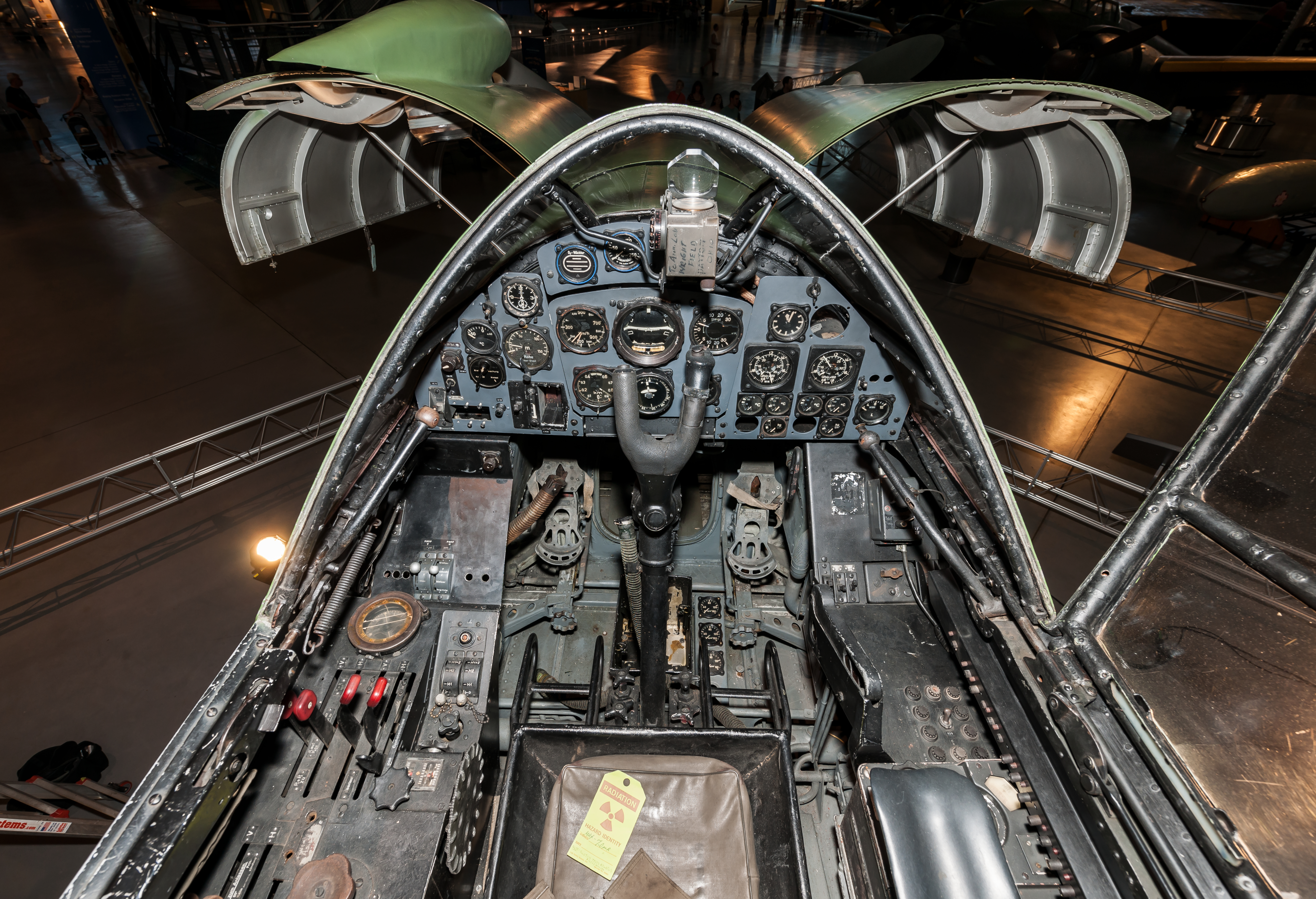 DornierCockpit. Photos by Dane A. Penland, Smithsonian National Air and Space Museum.[DornierCockpit6-17-2014_0034] [NASM2019-00563]